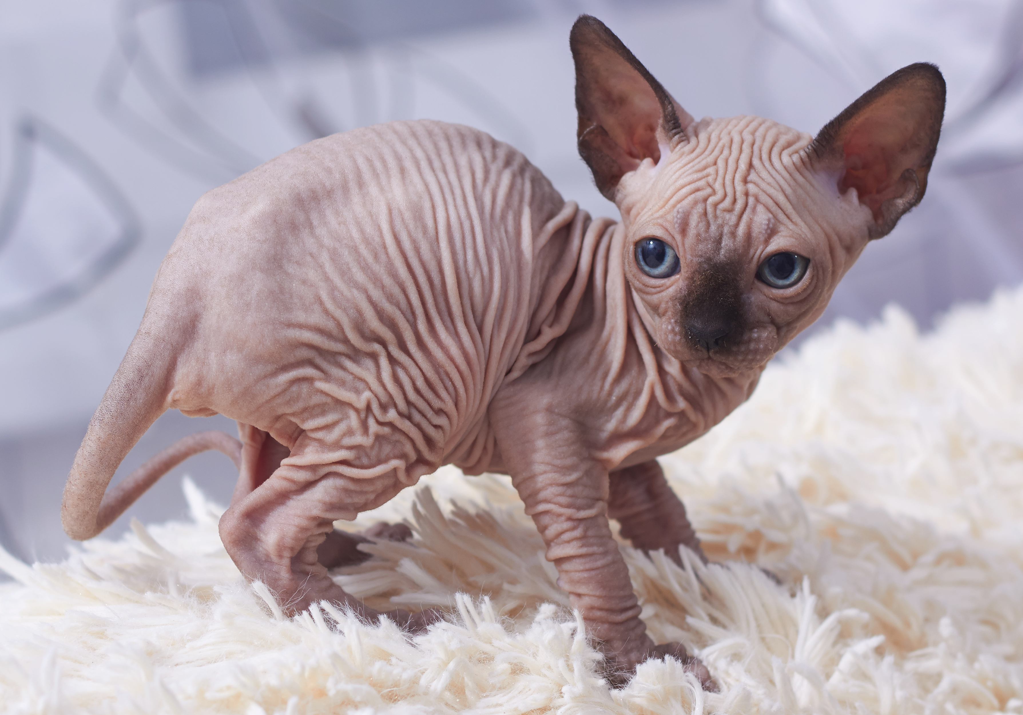 A Sphynx cat kitten. Sphinx kitten in Russia.